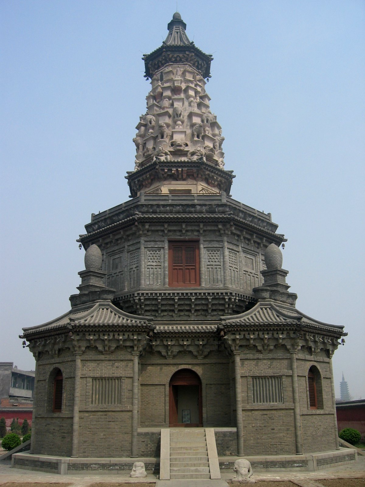 Photograph of the Hua Pagoda, Zhengding, Hebei Province, China. Photograph taken on April 18, 2005 by Rolf Müller.